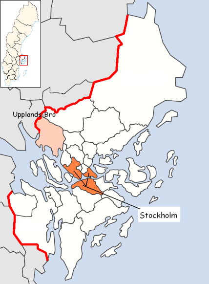 Upplands-Bro Municipality in Stockholm County Designed by me. Mere outlines are a PD source from